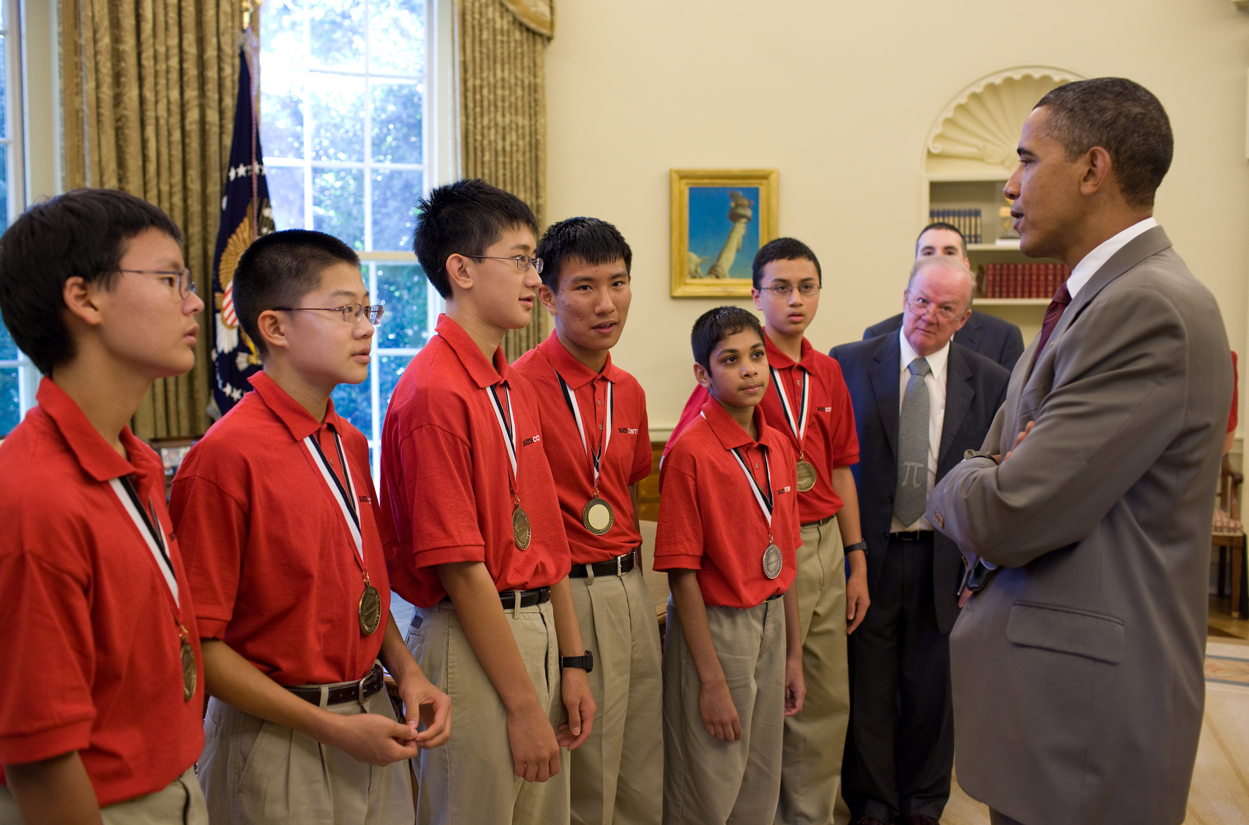 (caption from original: President Obama meets with the 2010 MATHCOUNTS winners in the Oval Office on June 28, 2010.)